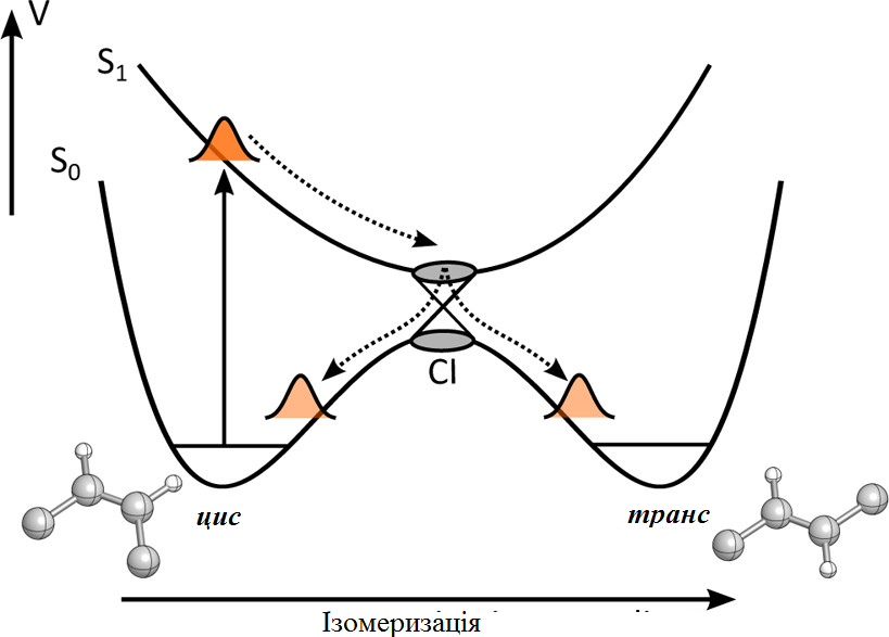 Schematic potential energy diagram for a cis to trans photoisomerization mediated by a conical intersection (CI)